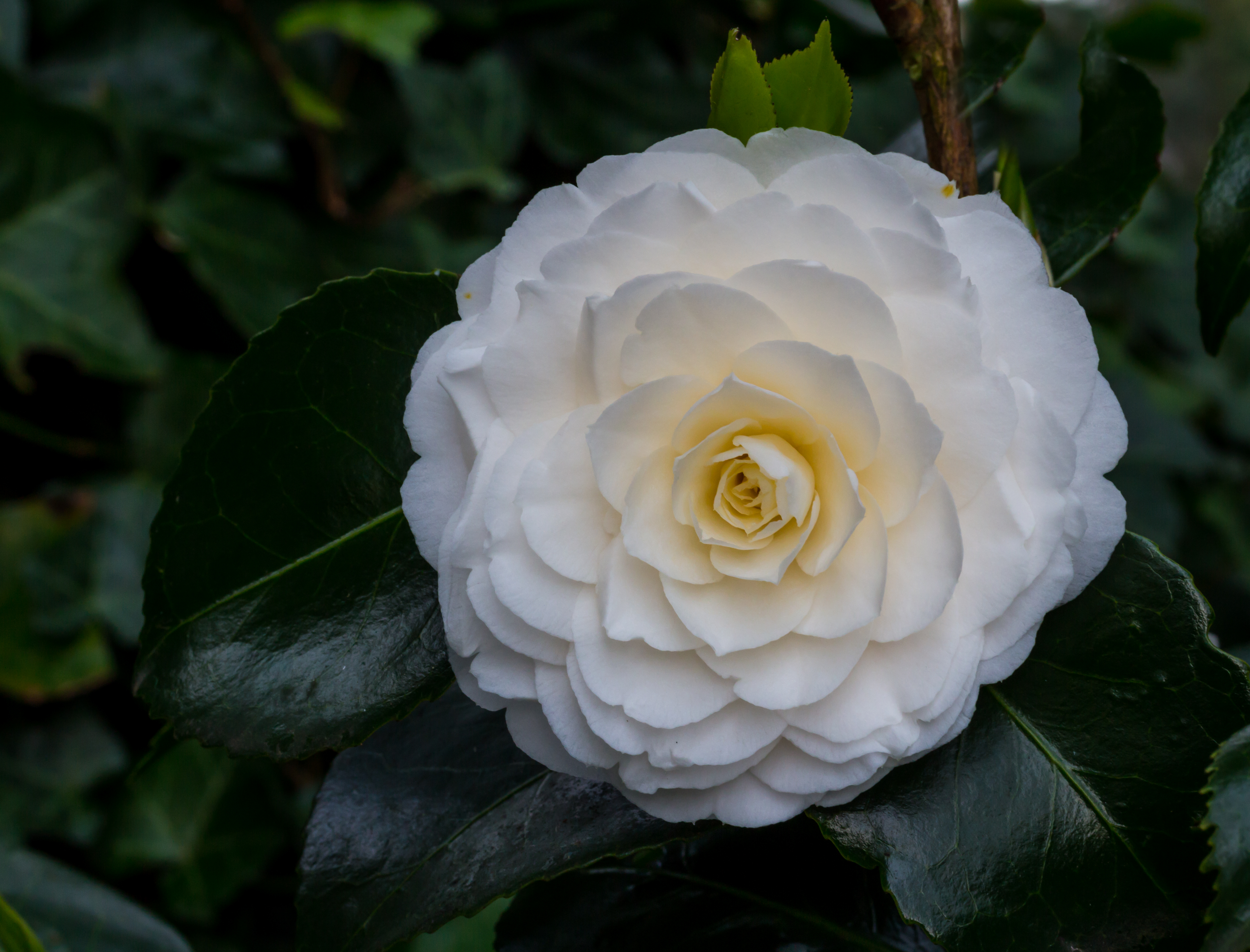 Delicate beauty of the Camellia × williamsii 'Jury's Yellow' flower. Location. Garden sanctuary JonkerValley.